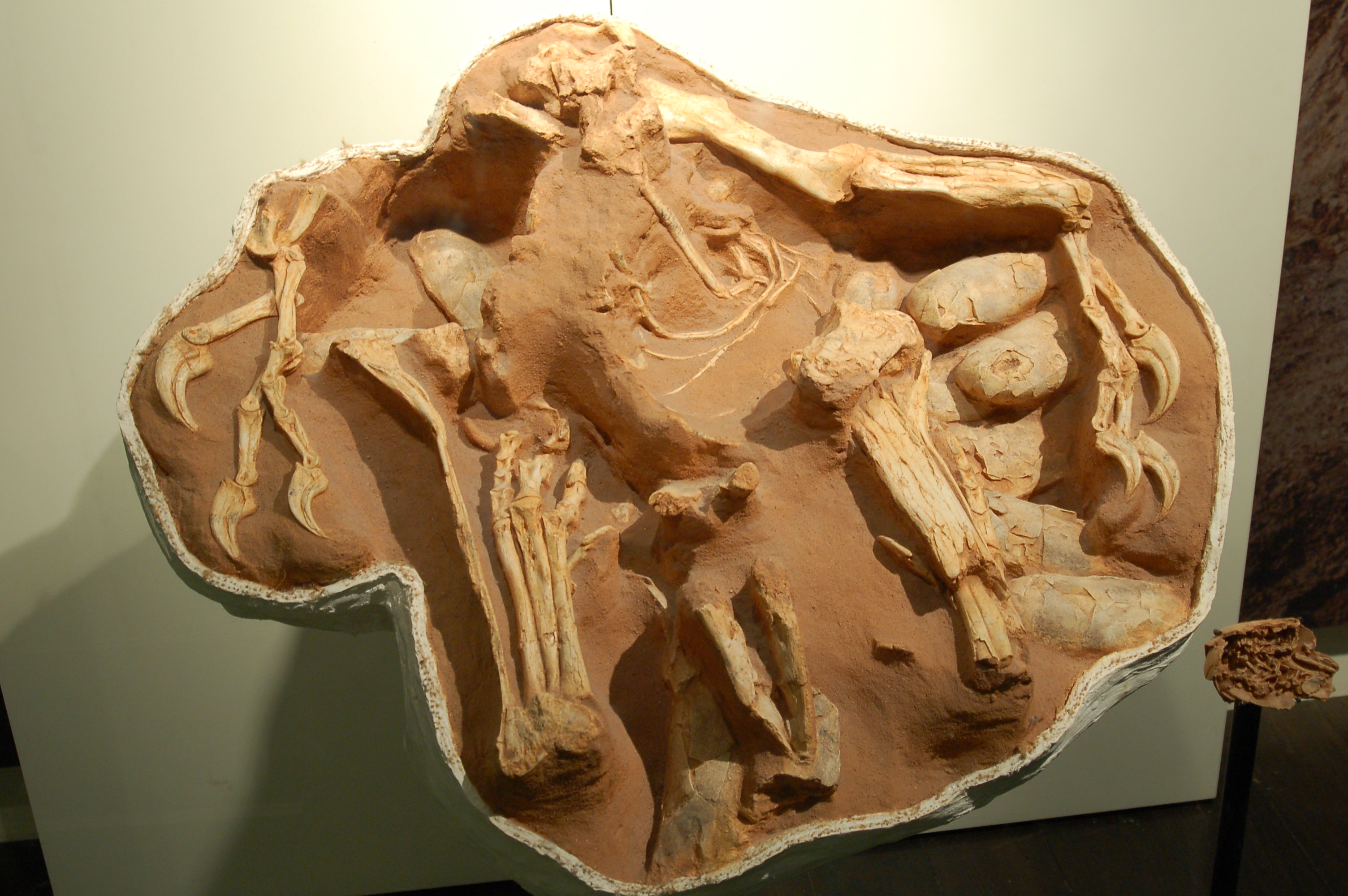 Photograph of a nesting oviraptorid dinosaur Citipati osmolskae, specimen IGM 100/979 (nicknamed "Big Mamma"), at the American Museum of Natural History in New York.